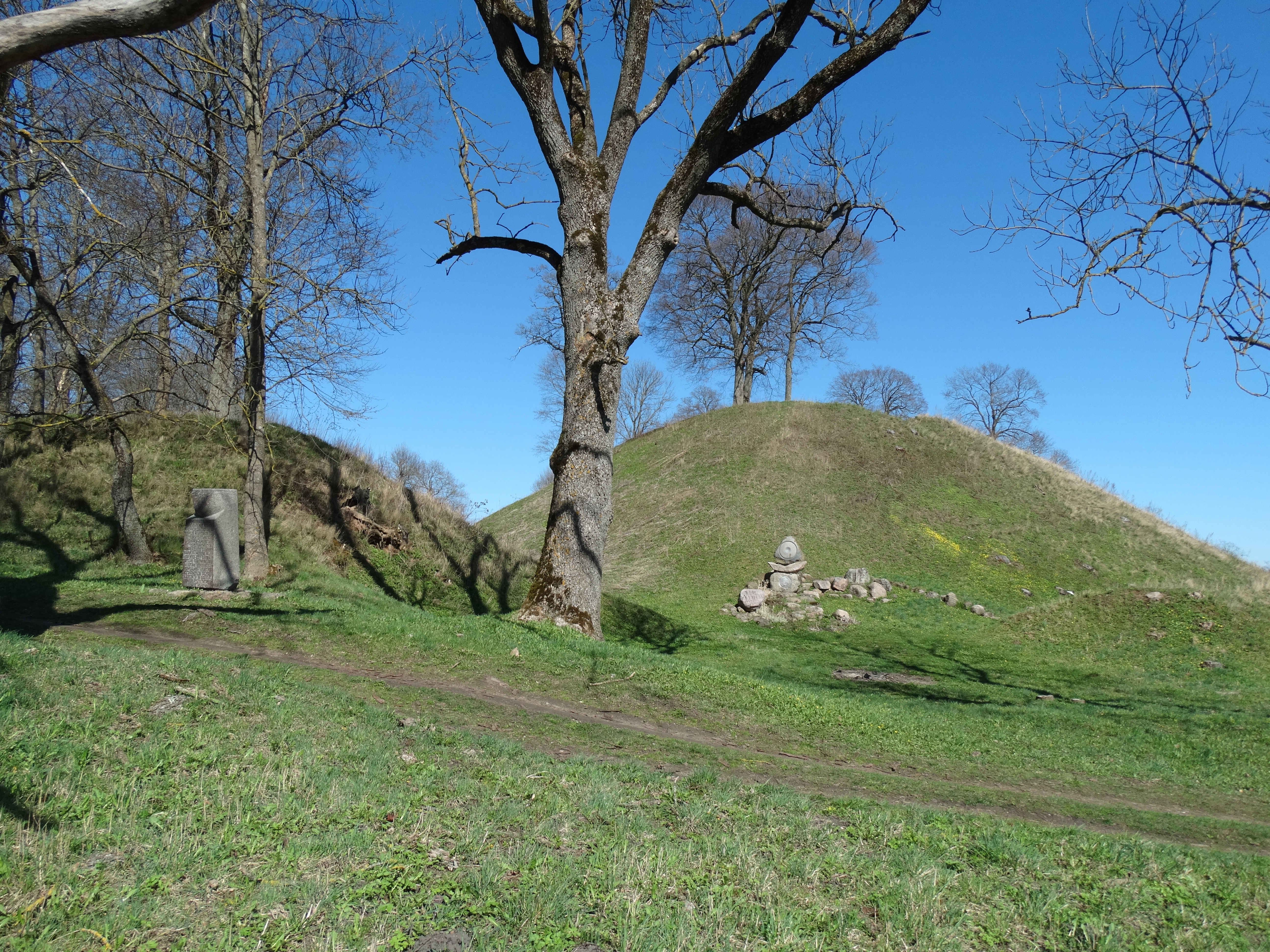 Hillfort, Maišiagala, Vilnius district, Lithuania